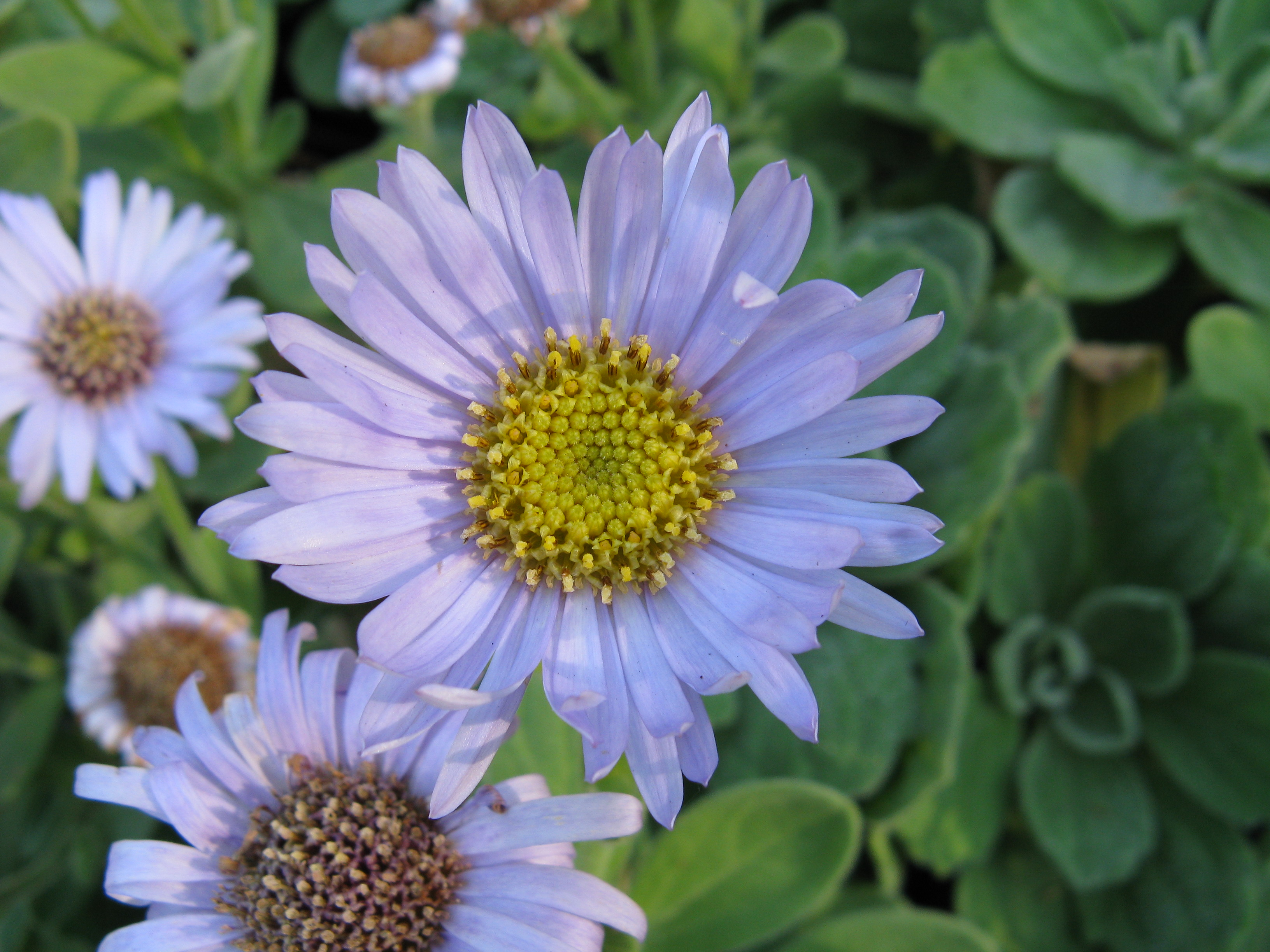 Scientific name Aster spathulifolius